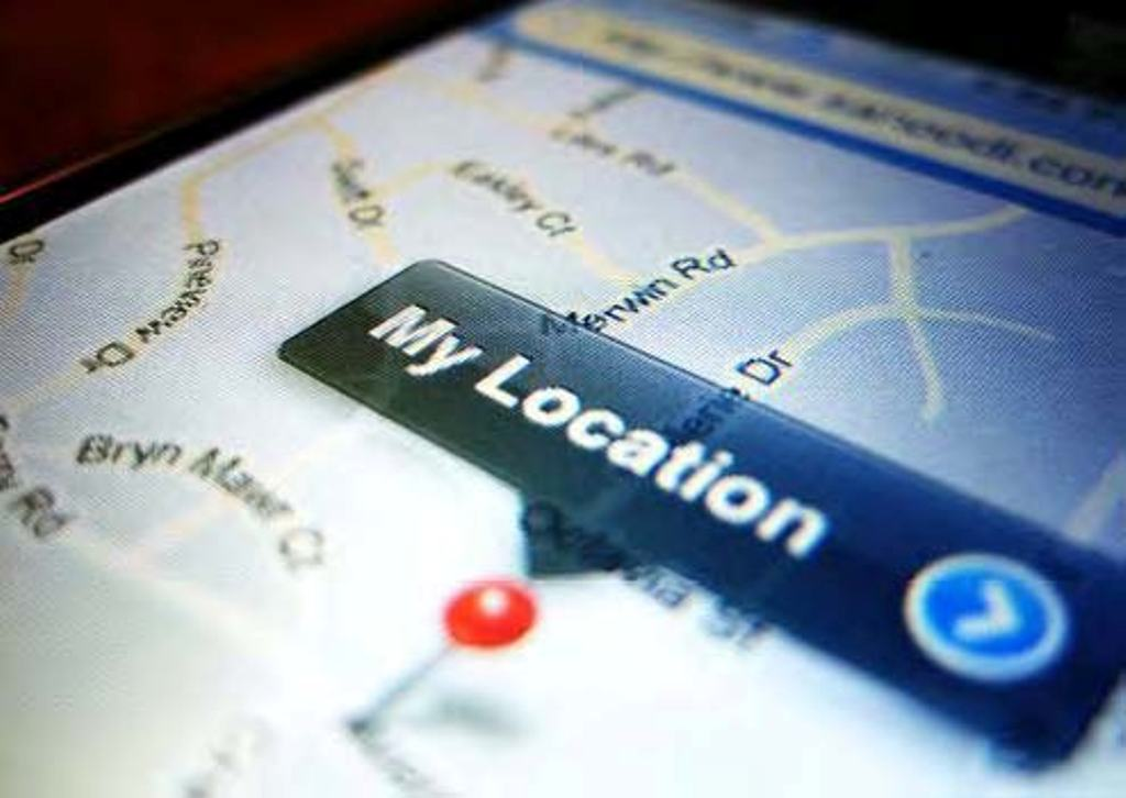 The action of automatic geotagging takes place on many smartphones. Some are enabled by default. Users can prevent their information from being posted by disabling the GPS function on their phone.